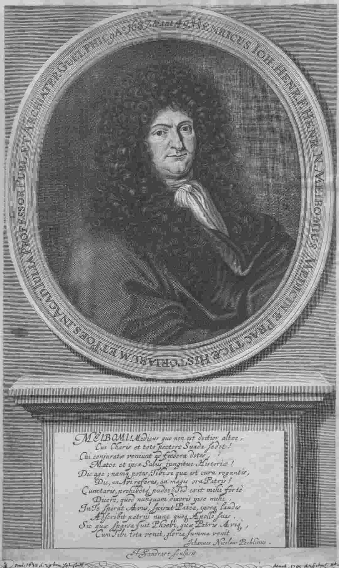 Portrait of Heinrich Meibom (Mediziner), engraving 313x193 mm